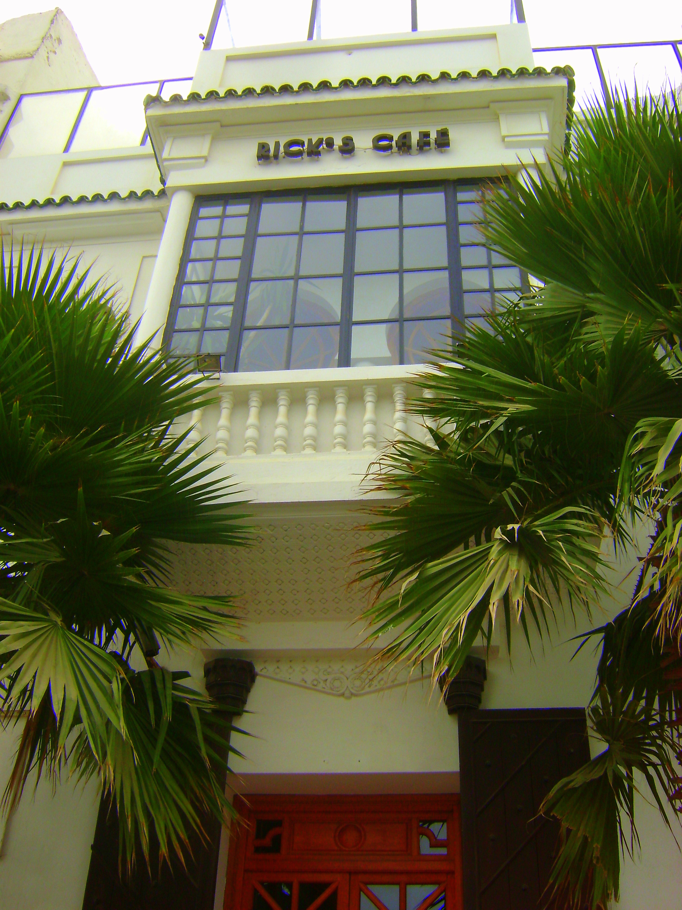 Rick's Café in Cadablanca, 2011.